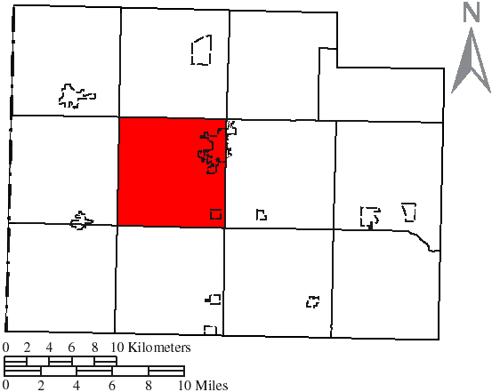 Made by the US Census and modified by myself